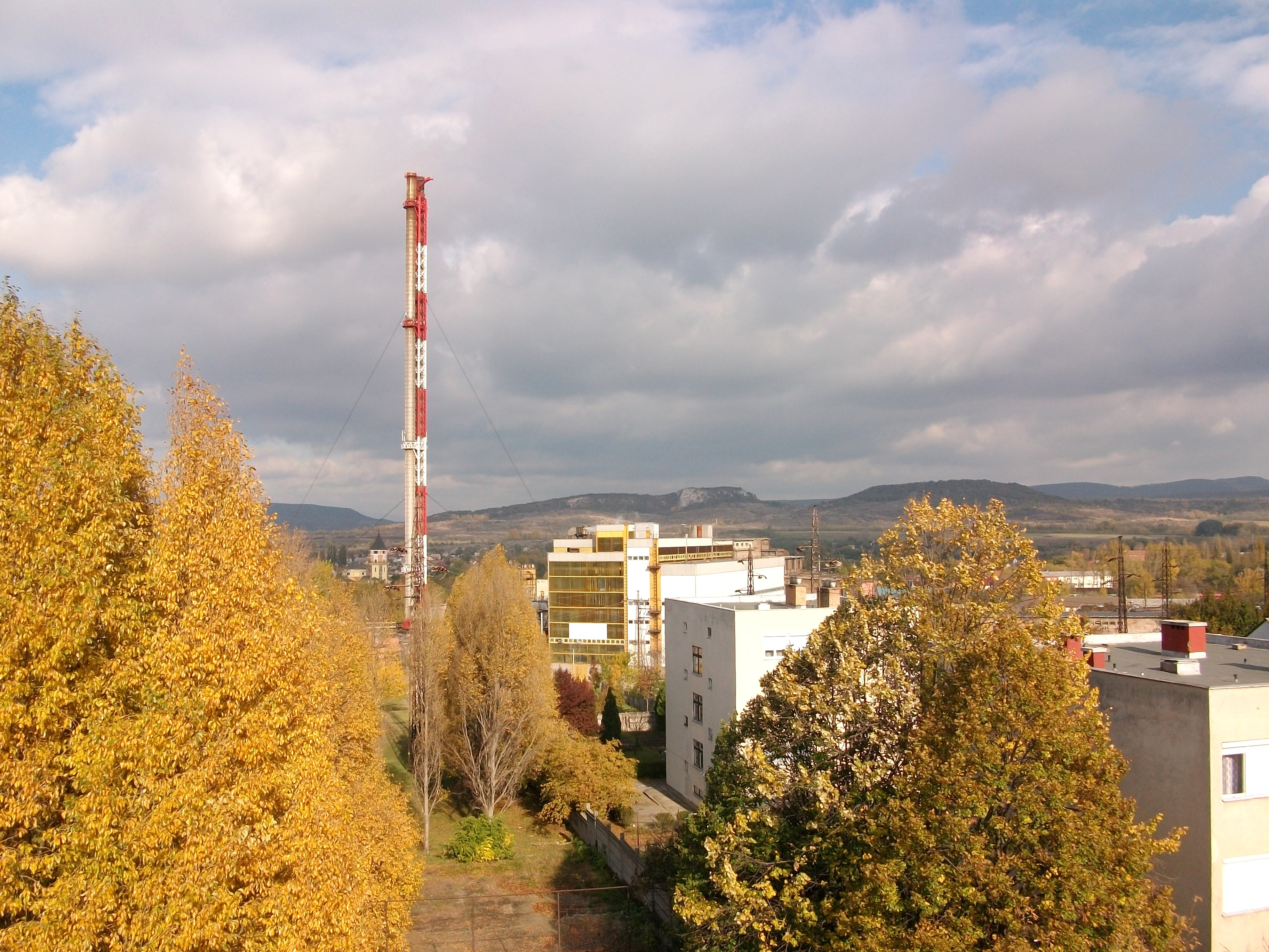 Power plant, Dorog, Hungary